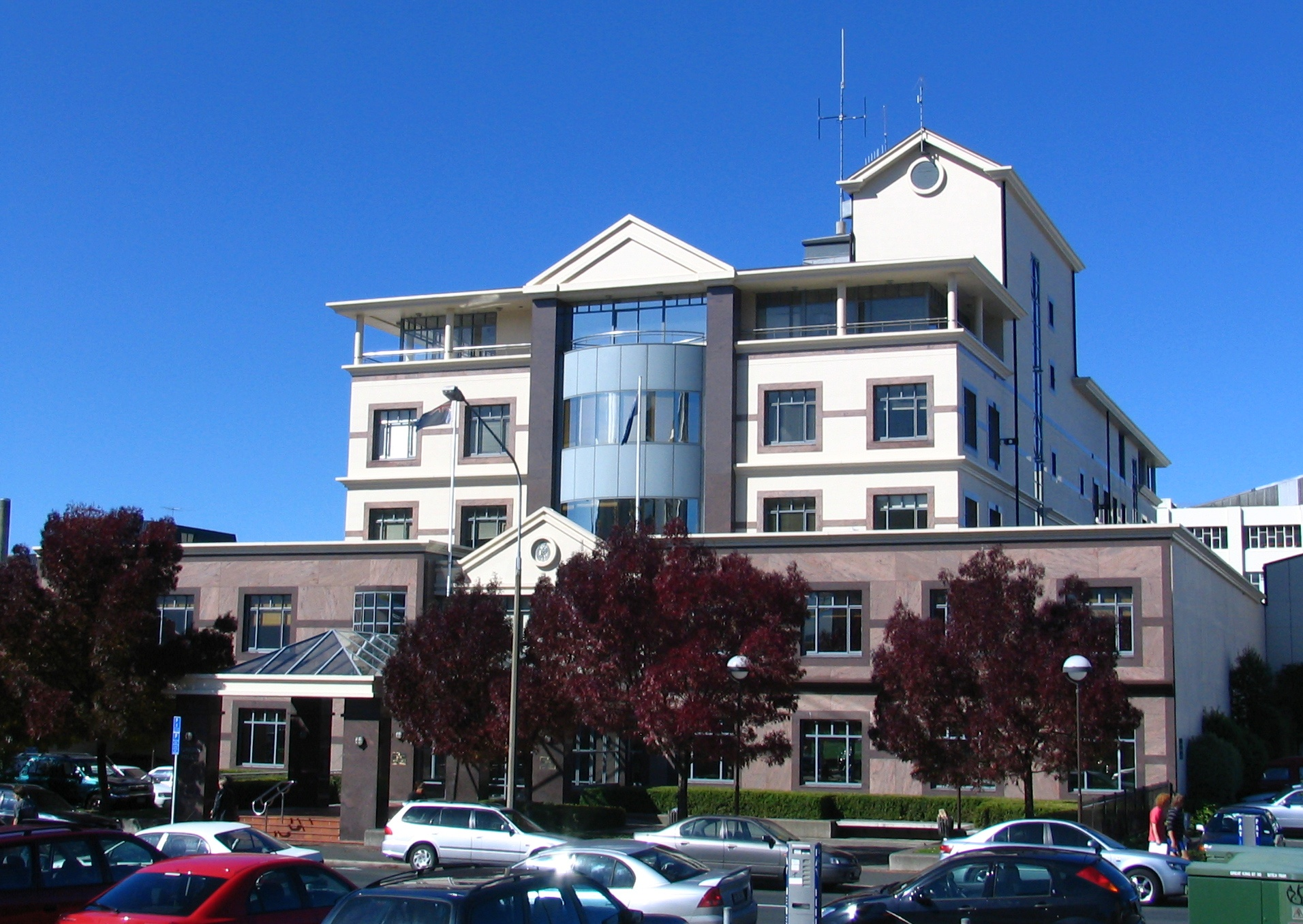 Dunedin Central station of the New Zealand Police, looking east across Great King Street. The building is the length of a city block, and opens to Cumberland Street / State Highway One at the far end.